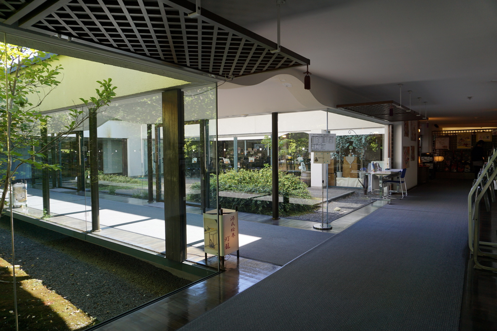 Interior of Tale of Genj museum in Uji, Kyoto